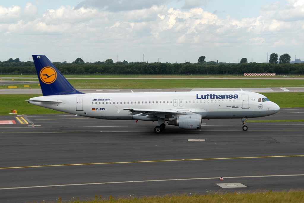 D-AIPX Airbus A320-211 msn 0147 operated by Lufthansa.